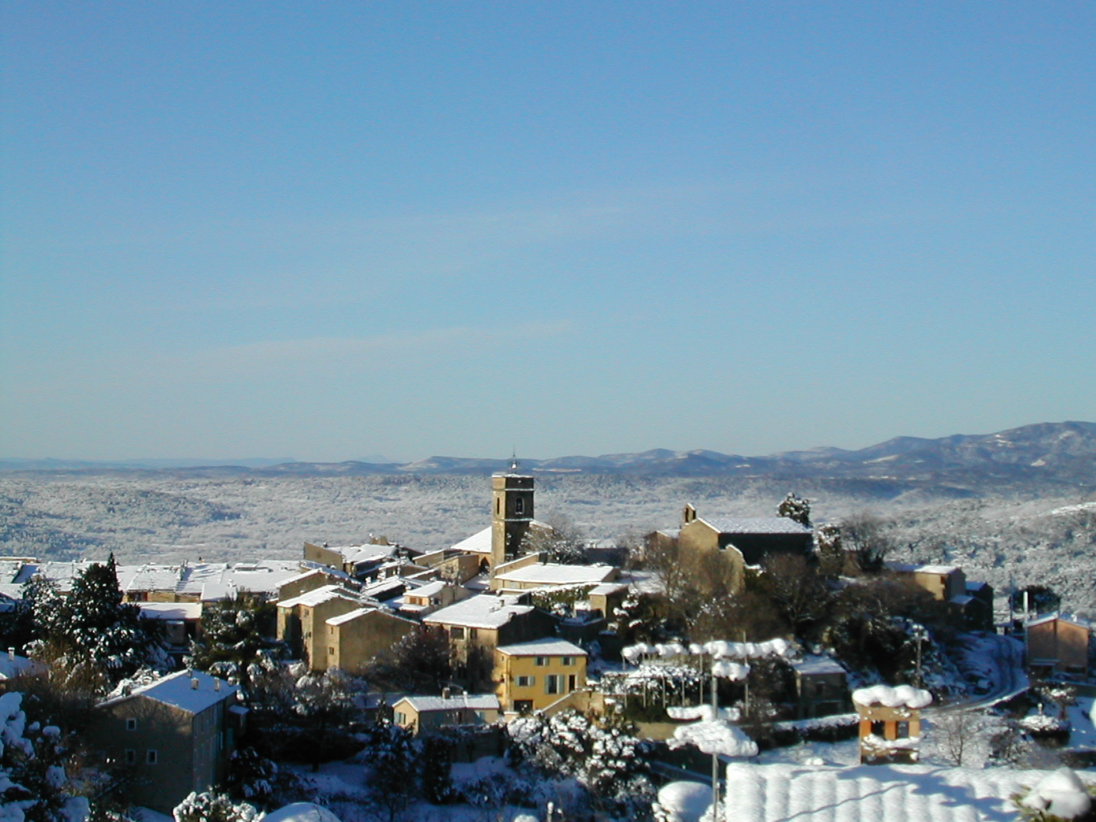 Hivers rudes, été chauds... La Provence !